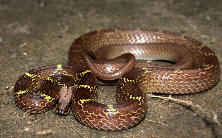 that is a nonvenomous snake.